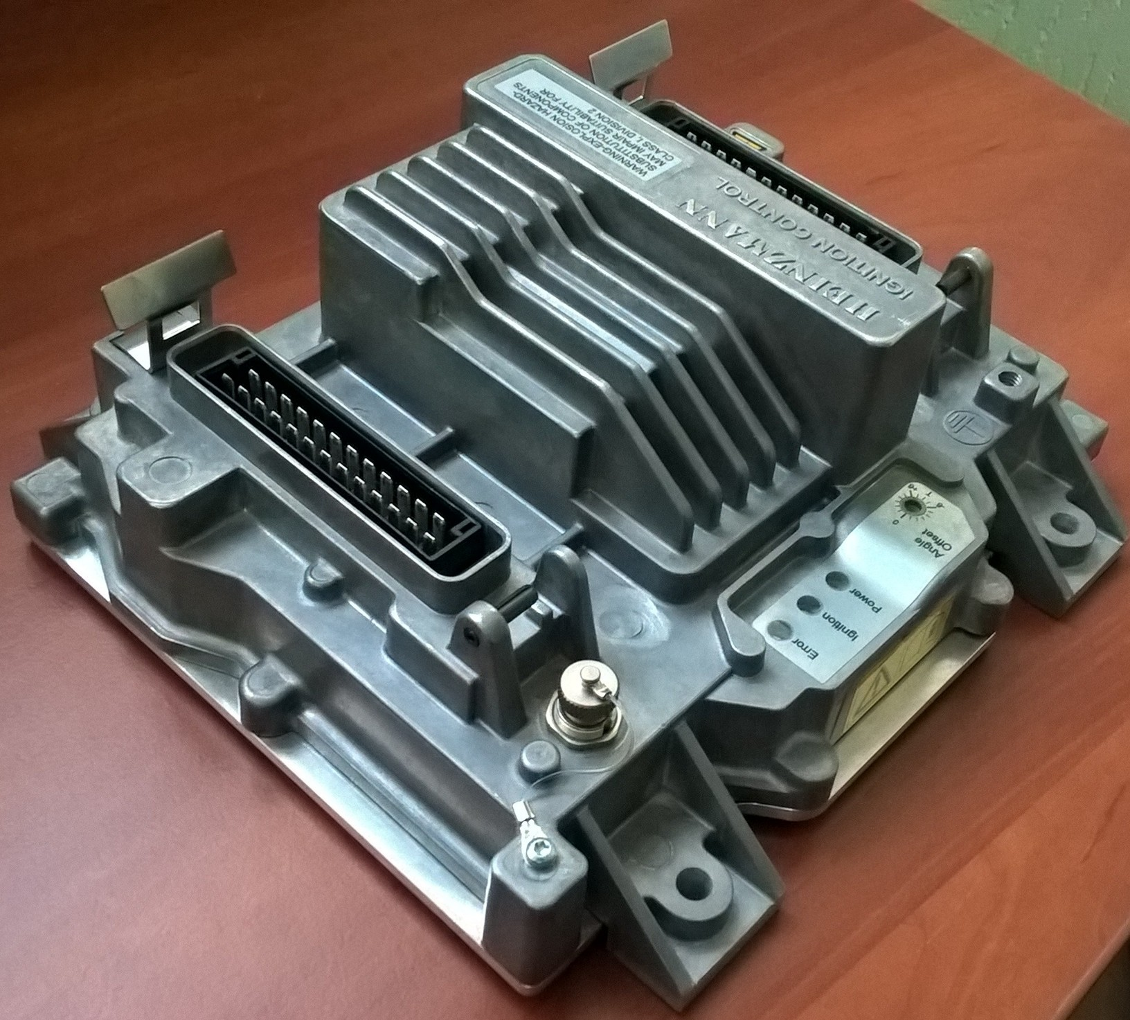 Programmable digital ignition system with capacitor energy accumulation Phlox II of Heinzmann GmbH to work with gas engines